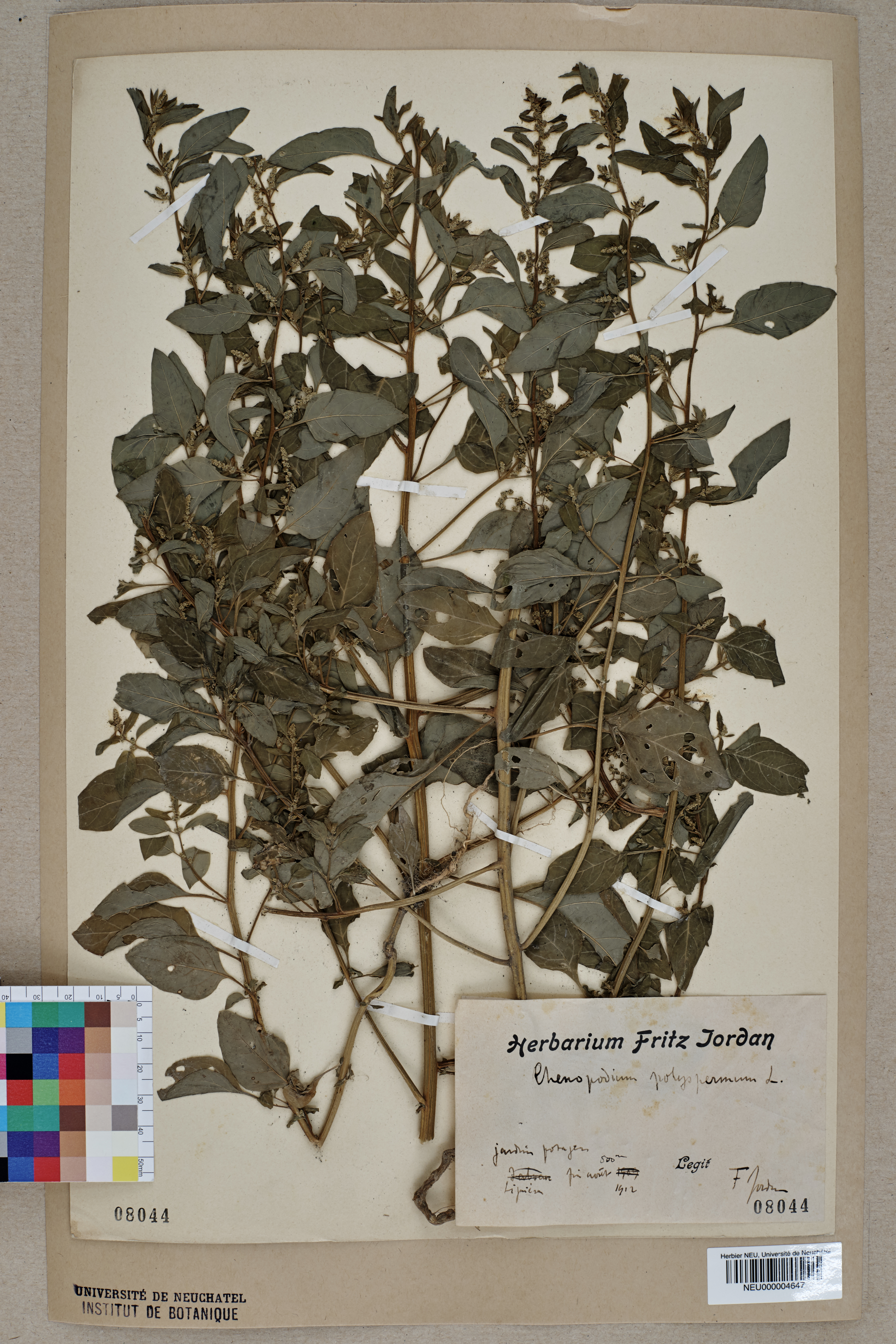 Dried pressed specimen of Chenopodium polyspermum